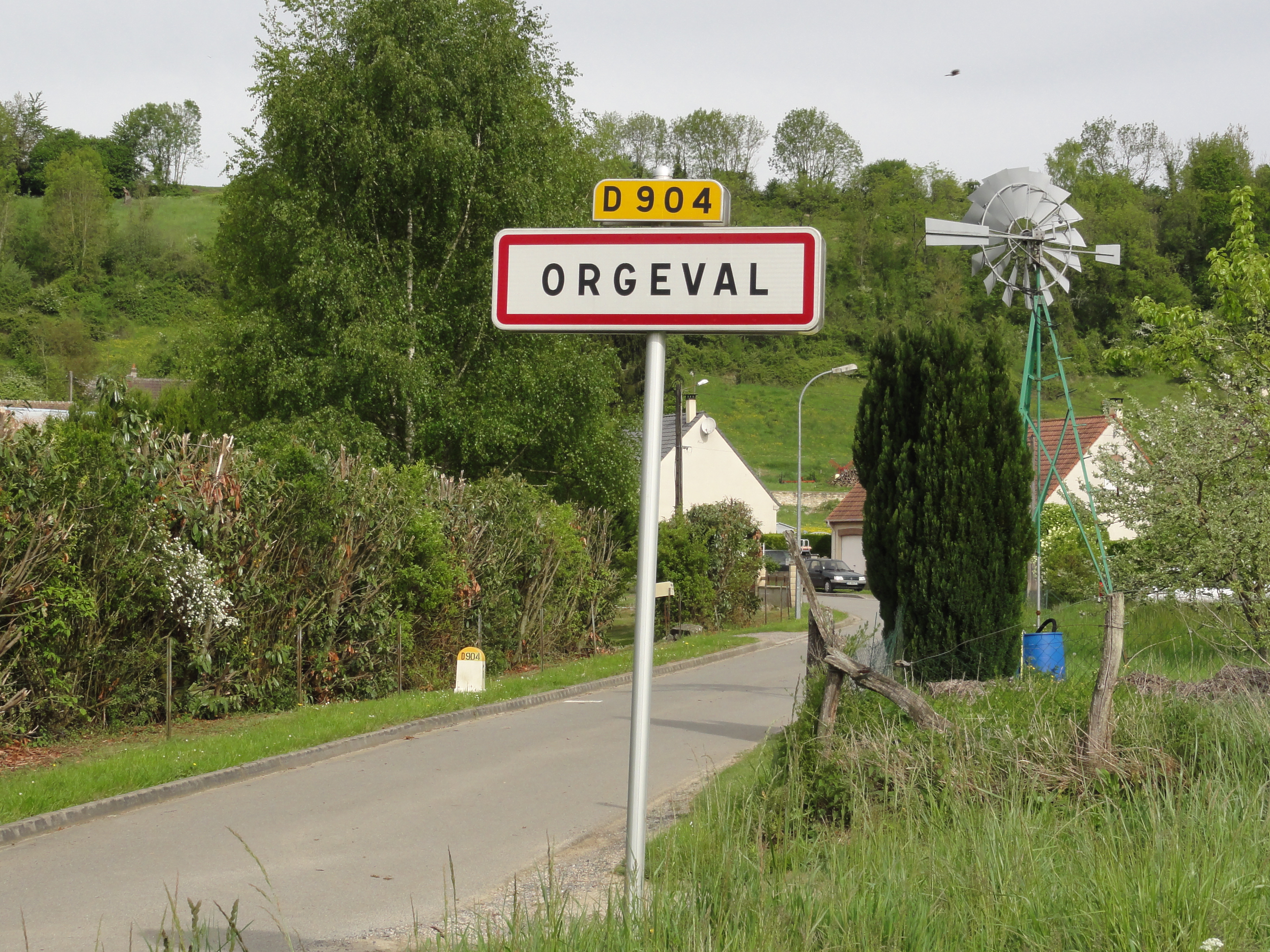 Orgeval (Aisne) city limit sign and wind wheel